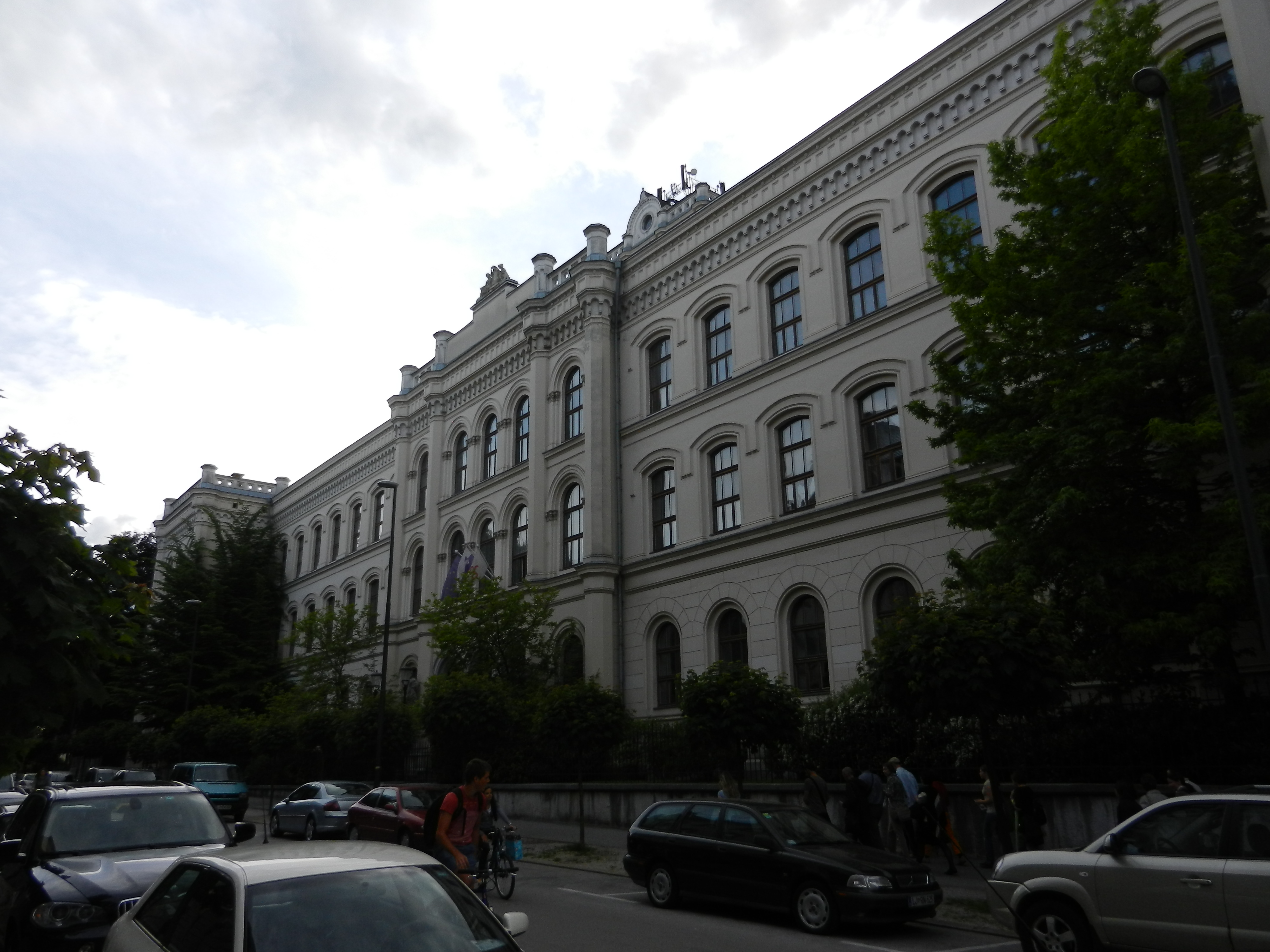 "Vegova" - Electrotechnical and computer professional school and high school in Ljubljana